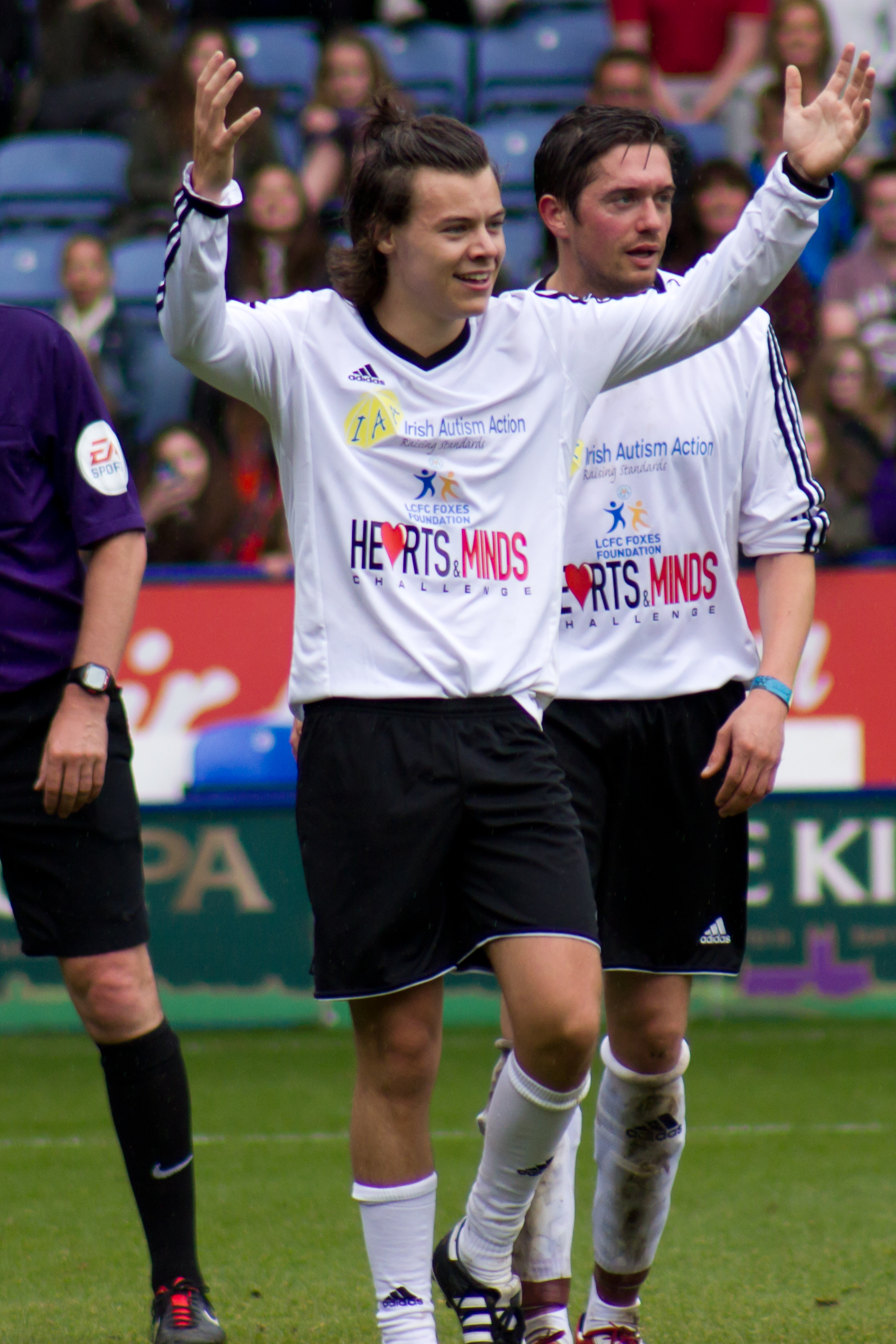 Harry Styles at Niall Horan Charity Football Challenge